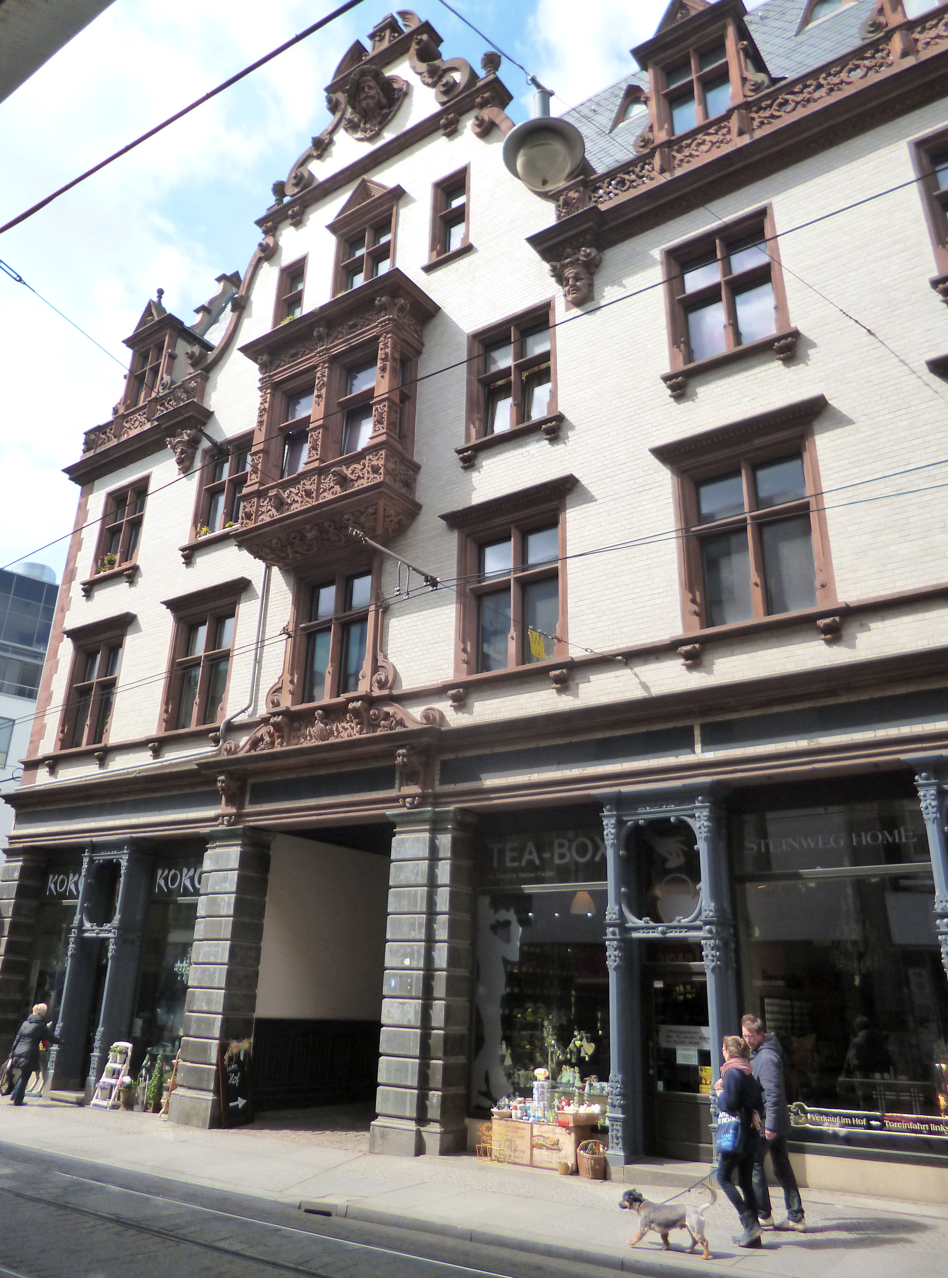 House No. 9, Grosse Steinstrasse, Halle (Saale)